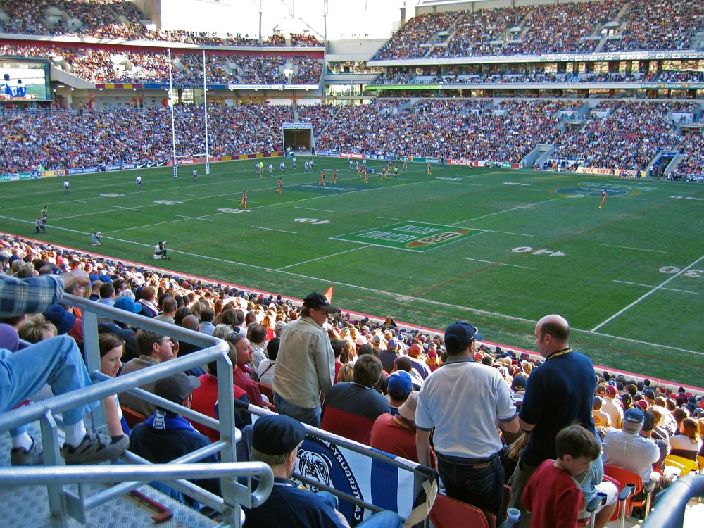 Authour is jimmyharris Brisbane Broncos VS Canterbury Bulldogs Suncorp Stadium National Rugby League